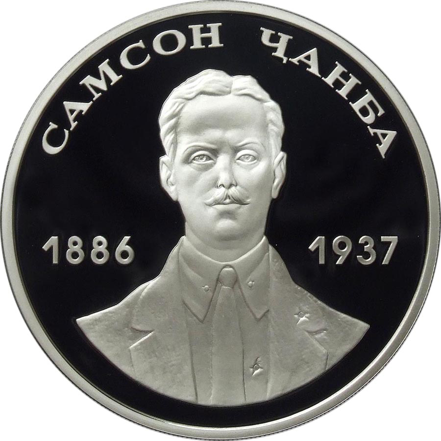 Coin «Samson Chanba», 10 apsars, 2009, Ag925, reverse